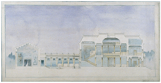 Artist's Studio (Section). Watercolour and ink by Marion Griffin 1894. Sourced from